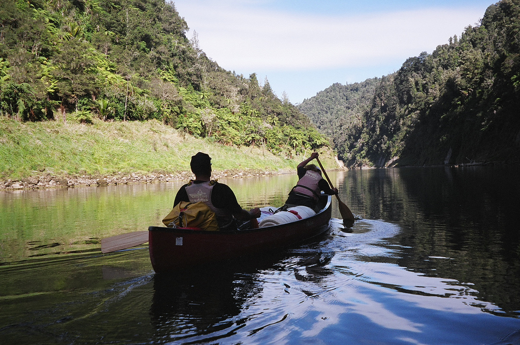 Kayaking with Blazing Paddles on the Whanganui River